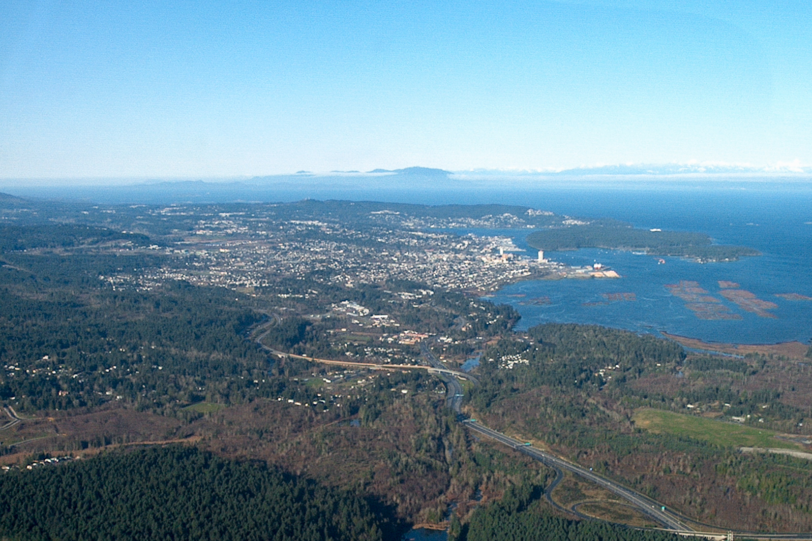 Aerial photograph I took myself of the City of Nanaimo BC on December 27, 2004 showing the city as well as Newcastle Island (just below a BC Ferry headed for Vancouver) and Protection Island looking approximately North across the Strait of Georgia. 1 of 2.